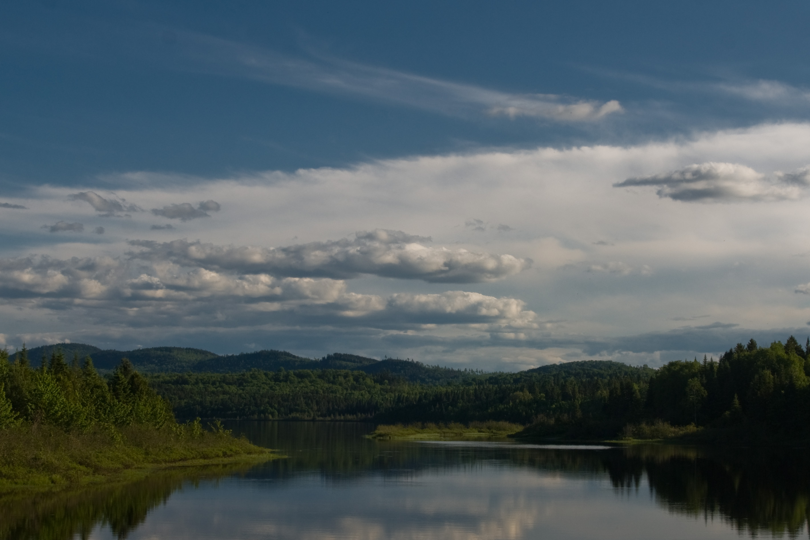 Beautiful landscapes surrounded the forests of the Great North Woods region of Maine where the Canada Lynx Project took place. Credit: James Weliver / USFWS